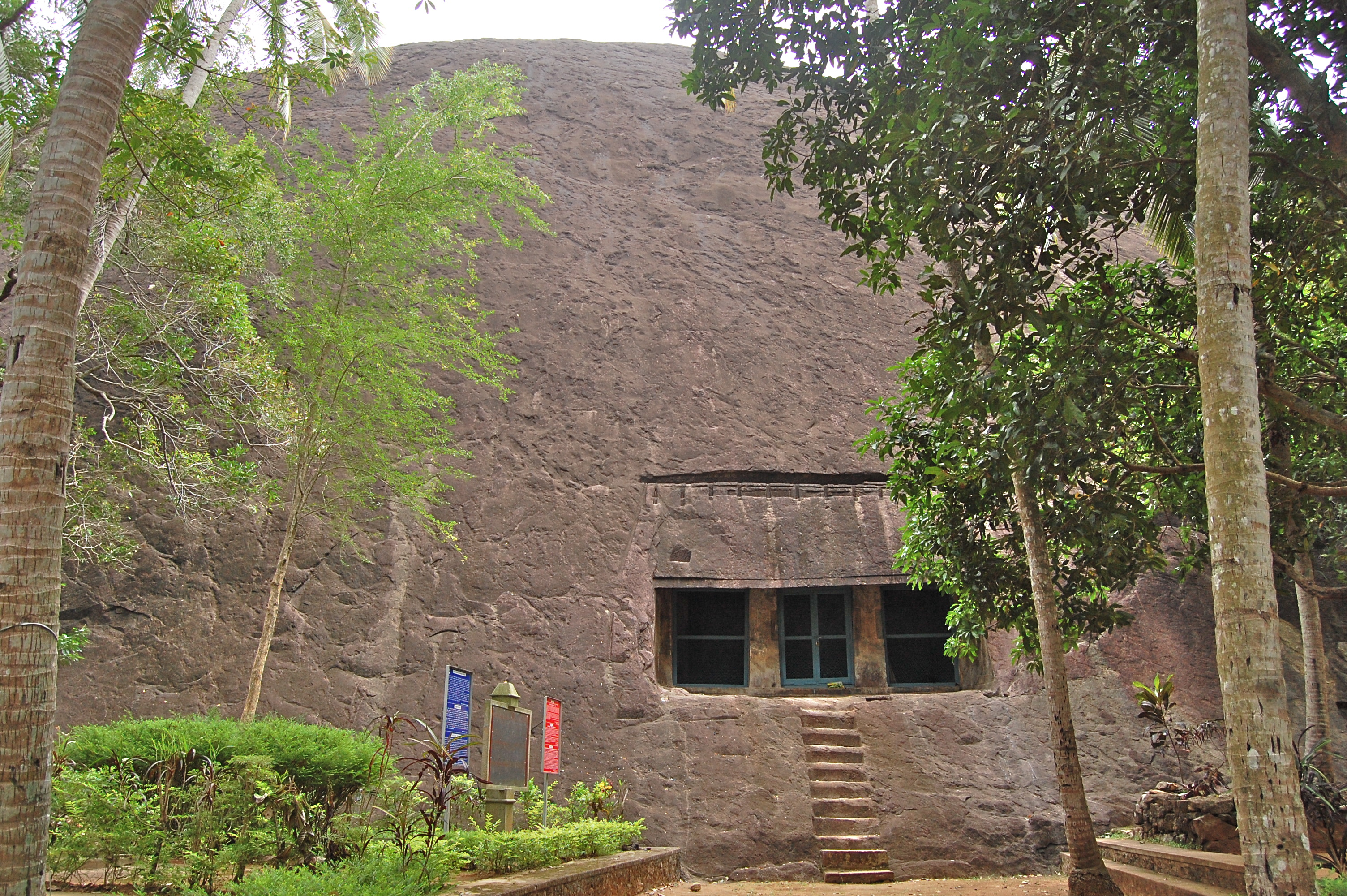 Tirunandikkare rock cut cave temple is located in the Kalkulam (Taluk) of Kanyakumari district.